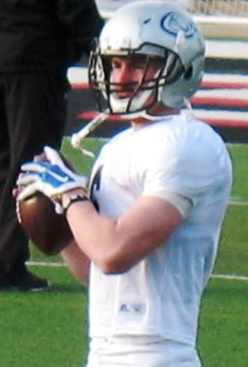 Shawn Wilkins Professional American Football Player